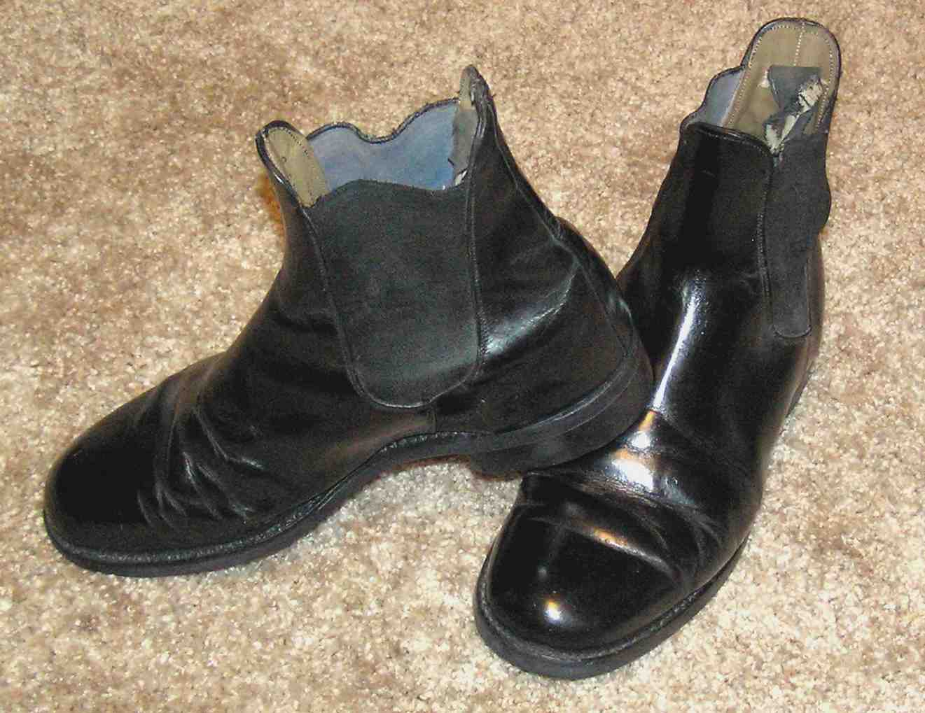 Jodphur boots, also called paddock boots, with stretch sides. Used for saddle seat style riding and for hunt seat style riding by children or by adults when teamed with half-chaps